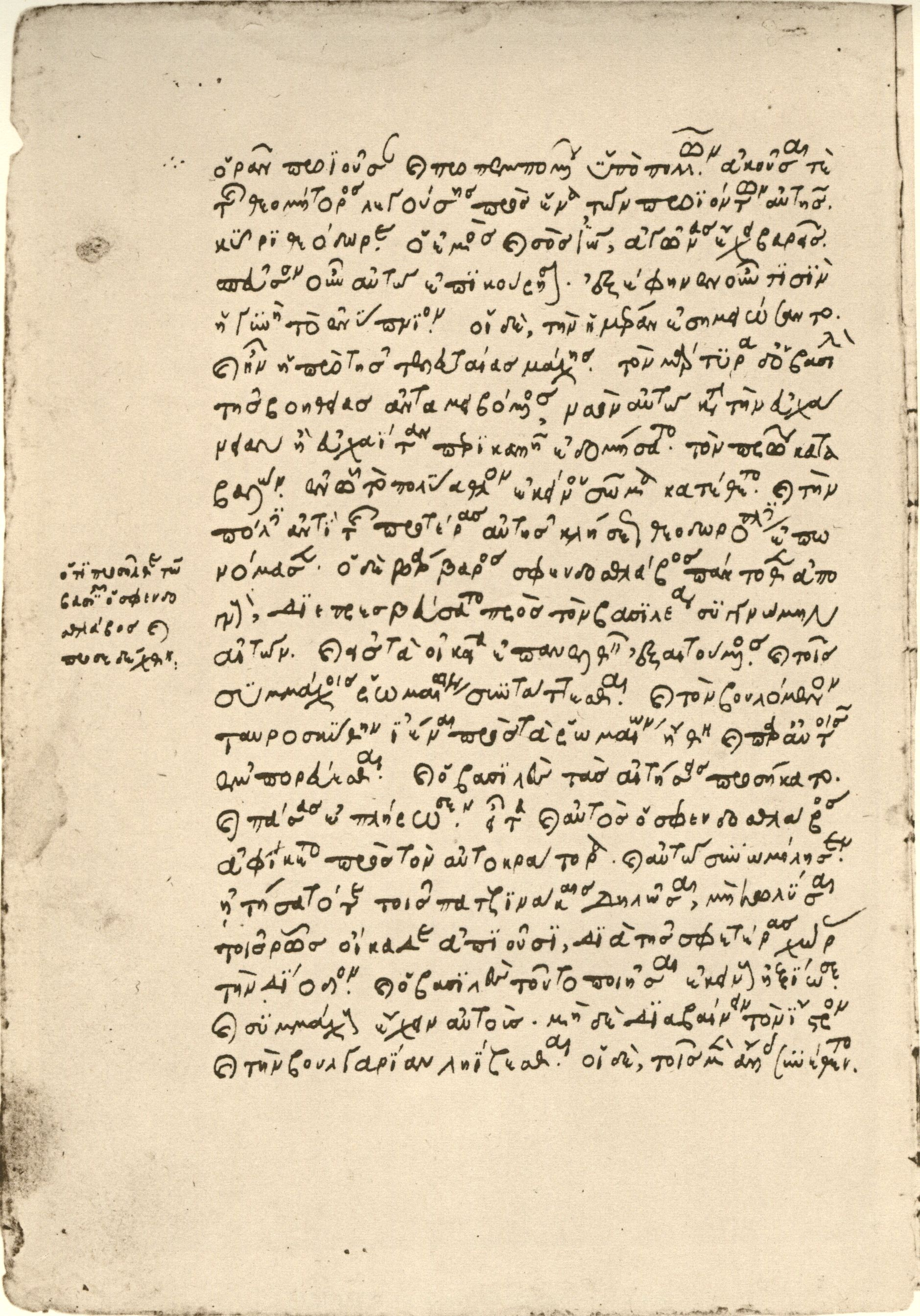 John Zonaras, Epitome, in ms. Biblioteca Apostolica Vaticana, Vaticanus graecus 980, fol. 213v.